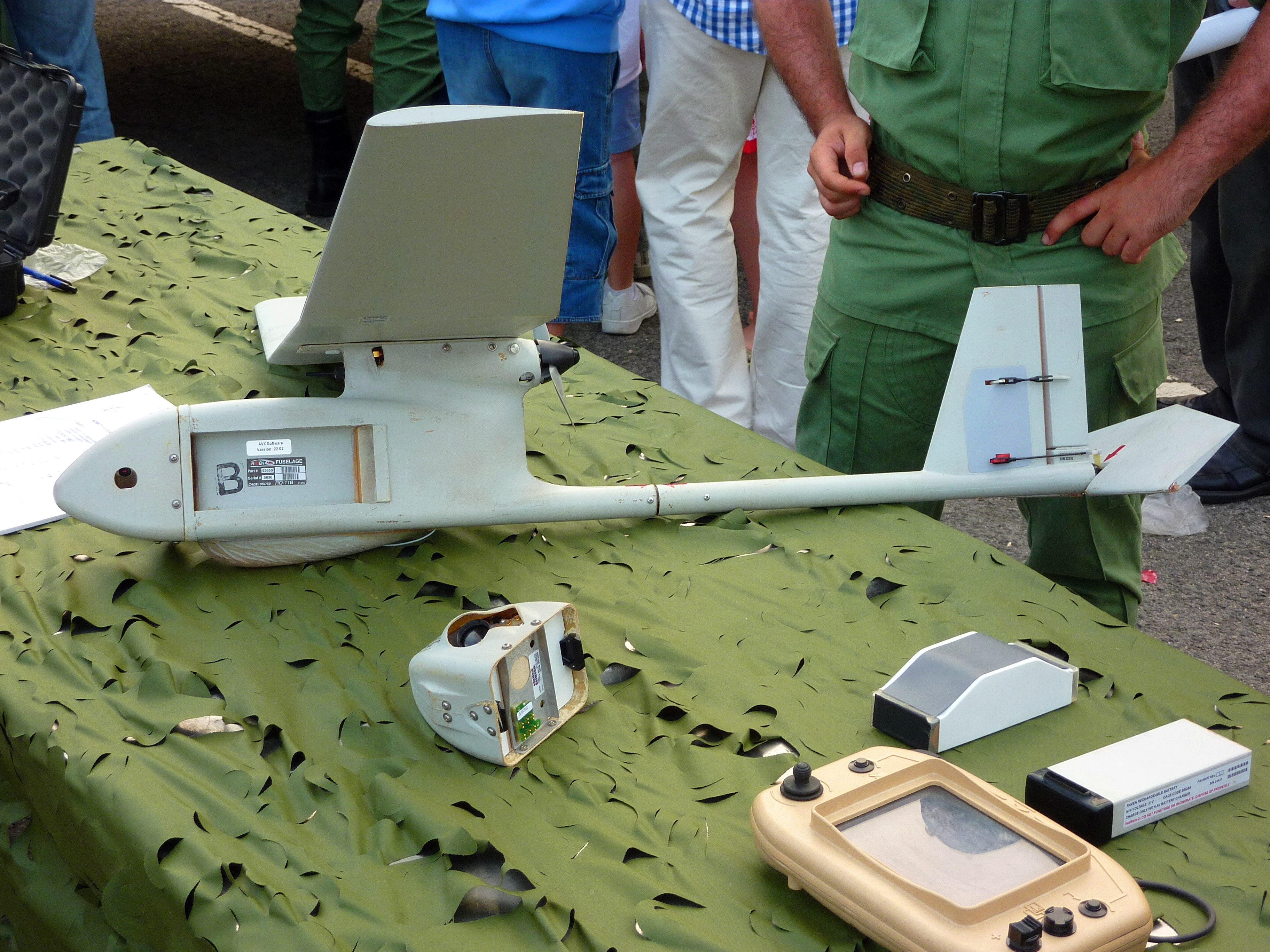 MUAV RQ-11 Raven of the Spanish Army.